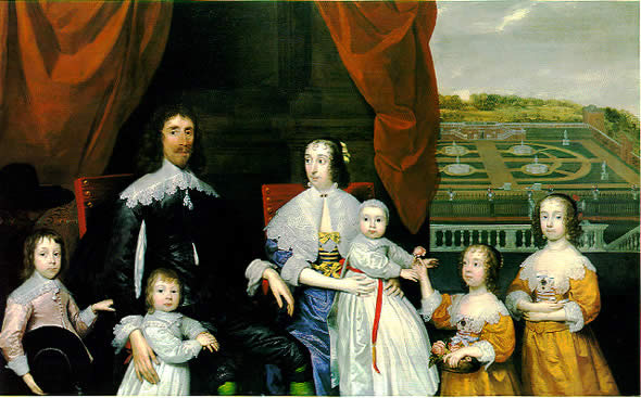 The Capel Family, by Cornelius Johnson (Jonson or Jonson van Ceulen), oil on canvas, circa 1640, 63 in. x 102 in. (1600 mm x 2591 mm). National Portrait Gallery, London, NPG 4759. Provenance: purchased with help from The Art Fund, 1970.[1] The people in the portrait are (from left to right): Arthur Capel, 1st Earl of Essex (1631-1683) his father Arthur Capel, 1st Baron Capel (1604-1649) Henry Capel, 2nd Baron Capel (1638-1896) mother Elizabeth, Lady Capel (died 1661) Charles Capel (died 1657) Elizabeth Countess of Carnarvon (1633-1678) Mary Duchess of Beaufort (1630-1715)